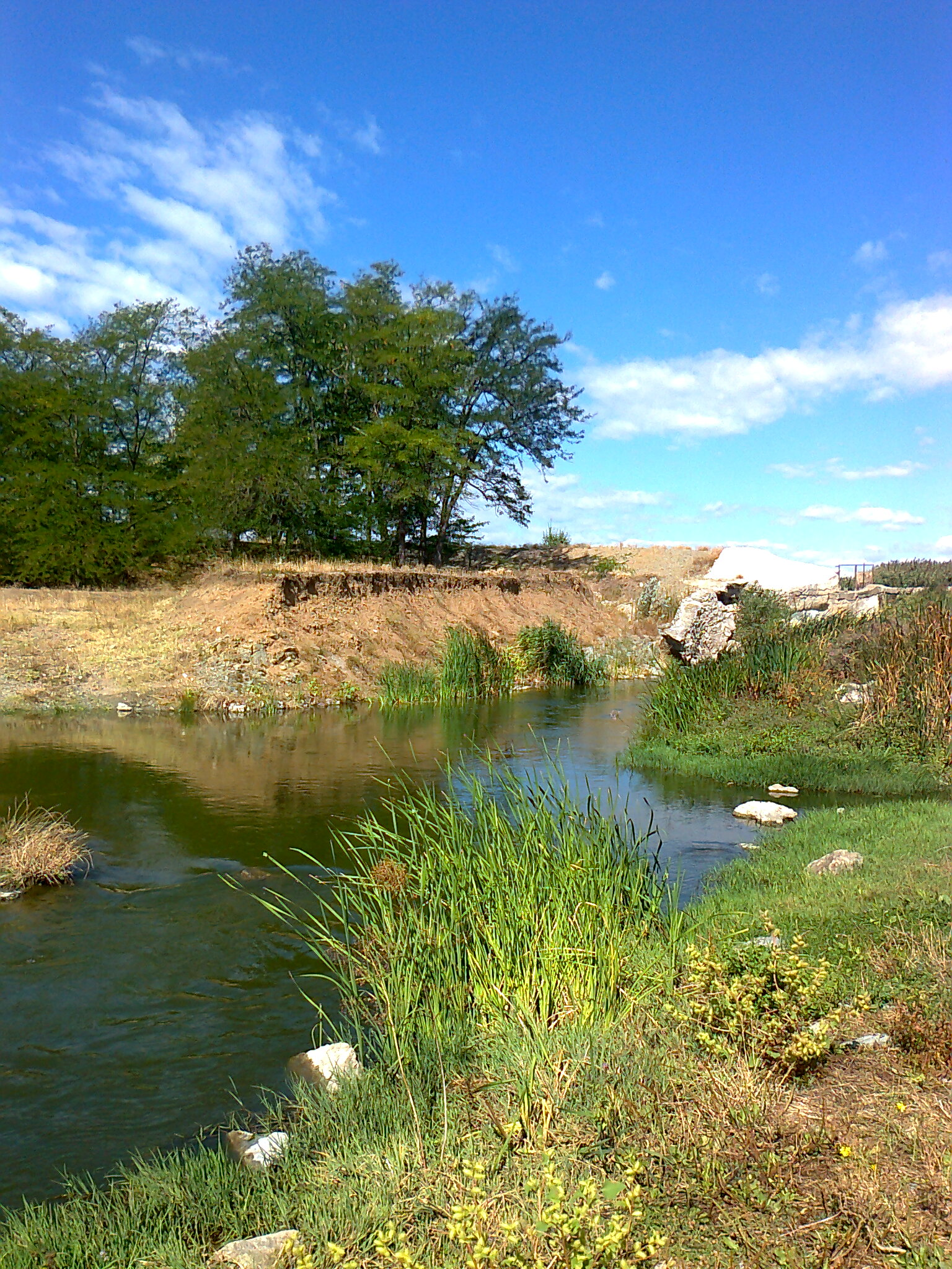 The minor river Kàlnitsa, Southeast Bulgaria.